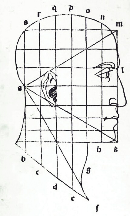 Illustration of a human head with its proportions indicated by an equilateral triangle and grid lines. From Luca Pacioli's De Divina Proportione, 1509, page 70